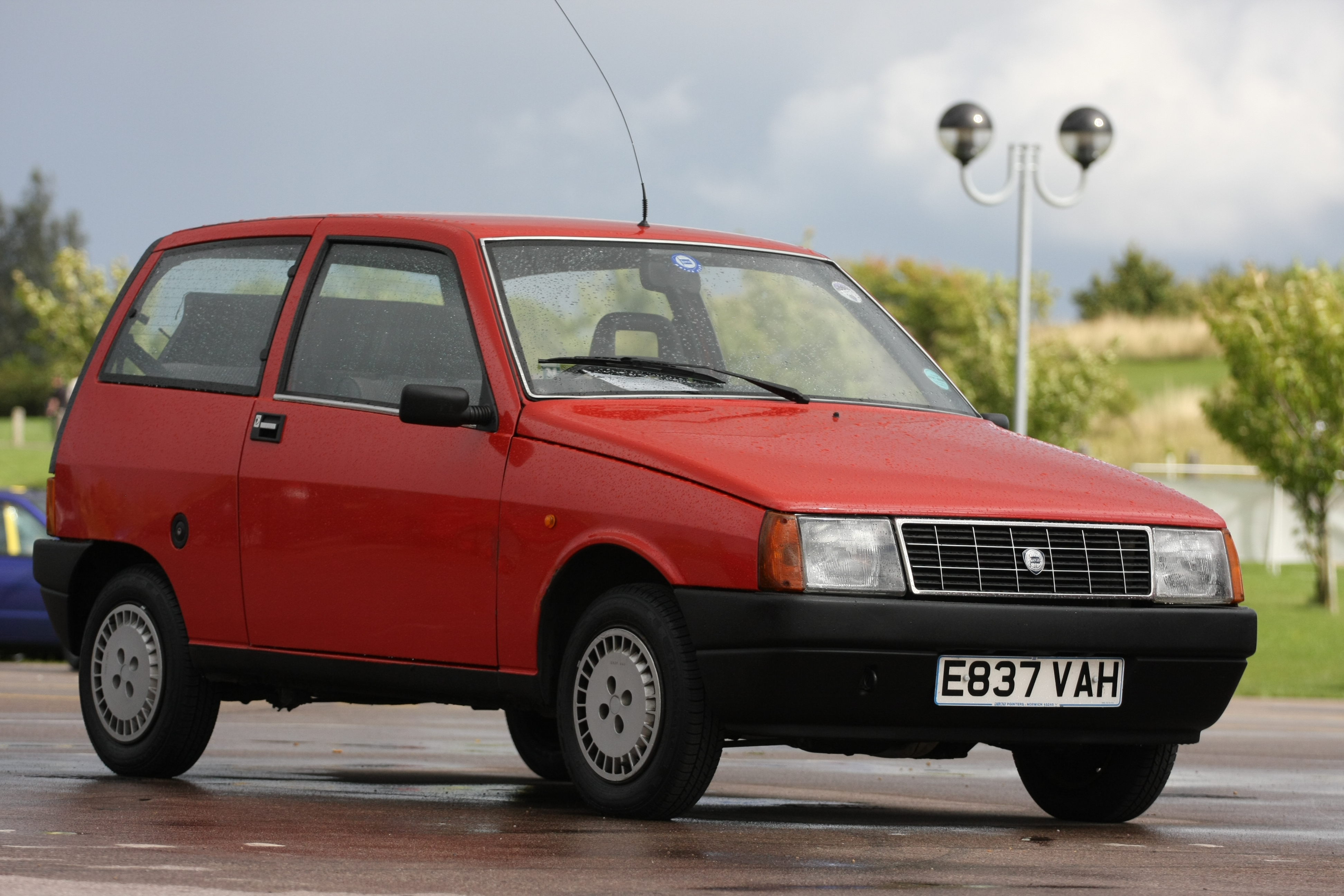 Auto Italia Autumn Italian Car Day Heritage Motor Centre Gaydon 2010